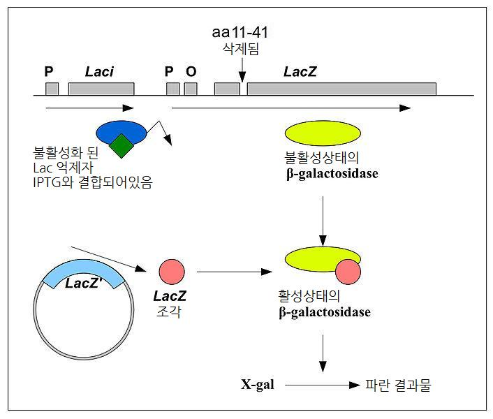 This file is translated in Korean. The original file is a "Blue_white_assay_Ecoli.jpg".